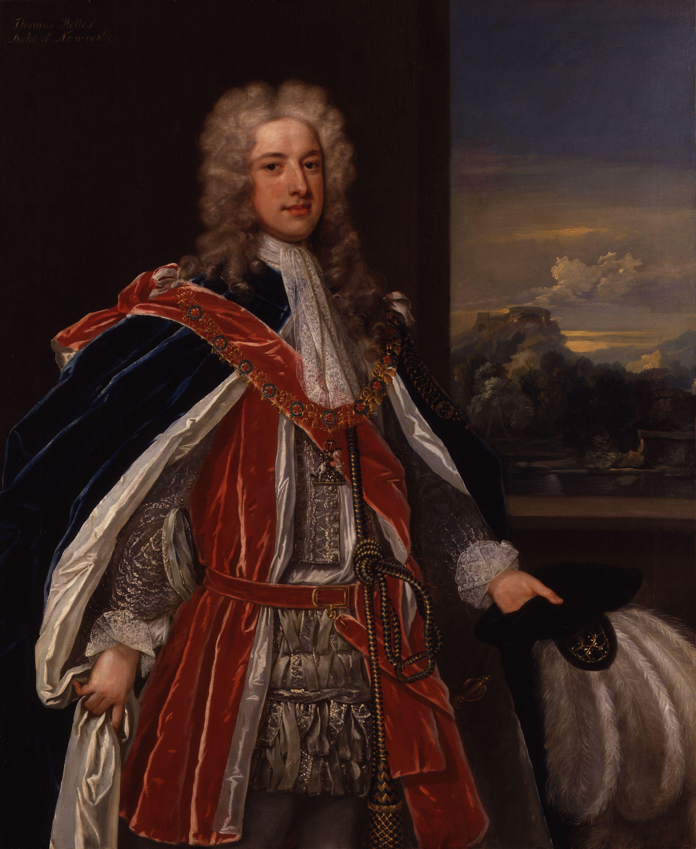 All images in this batch have been confirmed as author died before 1939 according to the official death date listed by the NPG.